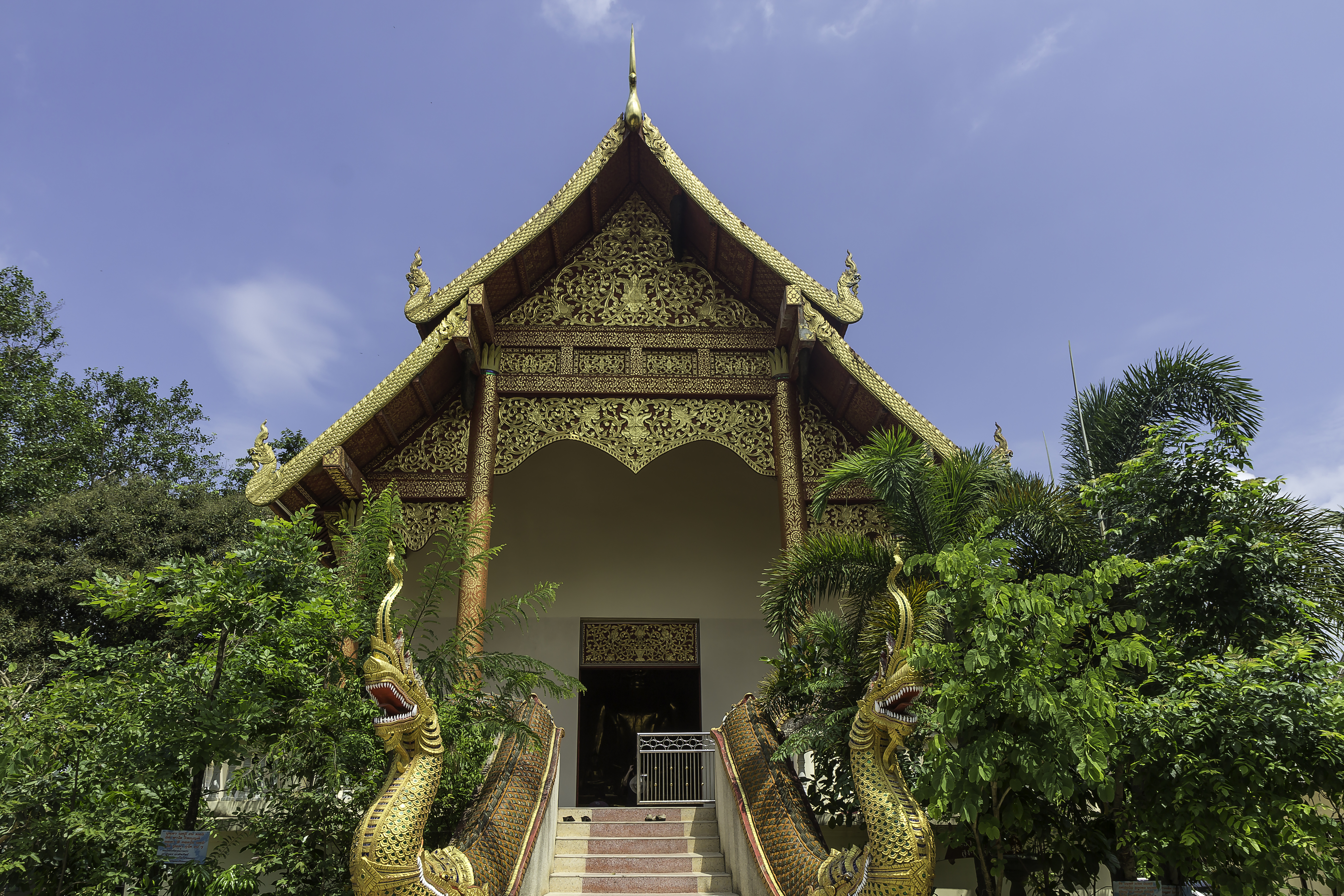 Wat Doi Ngam Mueang, Chiang Rai, Thailand